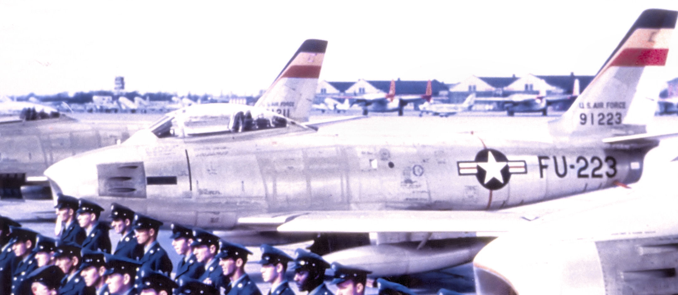 63d Fighter-Interceptor Squadron North American F-86A-5-NA Sabre 49-1223 56th Fighter-Interceptor Group, Selfridge AFB, Michigan, 1950 During the Korean War, this aircraft was assigned to the 335th FIS, 4th FIG and was shot down by MiGs near Wonsan Feb 3, 1952. Pilot ejected.